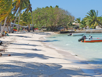 Raroia beach